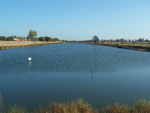 Barton's point Canal Fishing lake for membership only. Looking north-east toward road bridge A250 Halfway road. Left of photo is MileTown, Sheerness and right of photo is Sheppey Court Marshes.